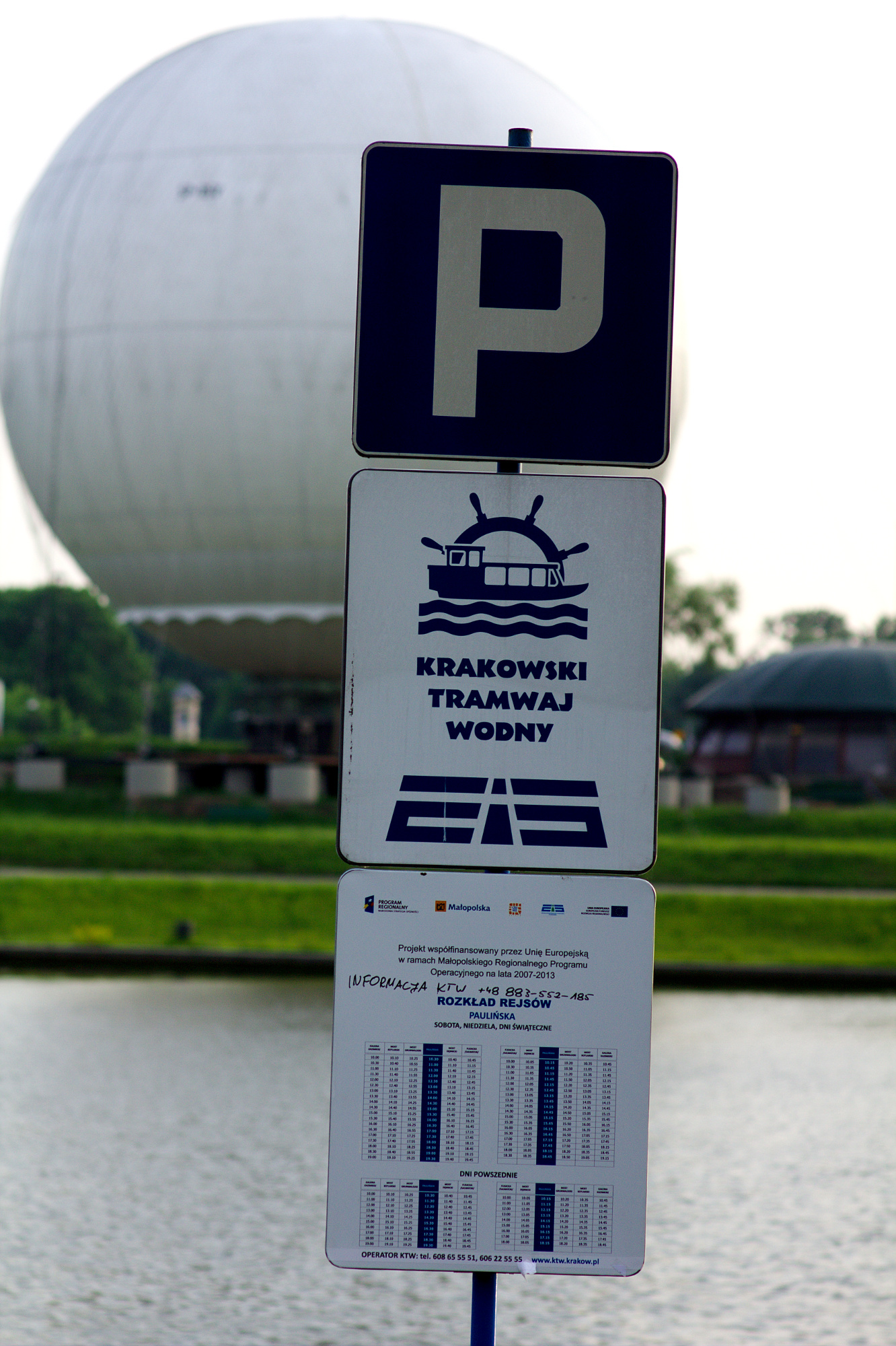 Water Taxi Stop in Cracow